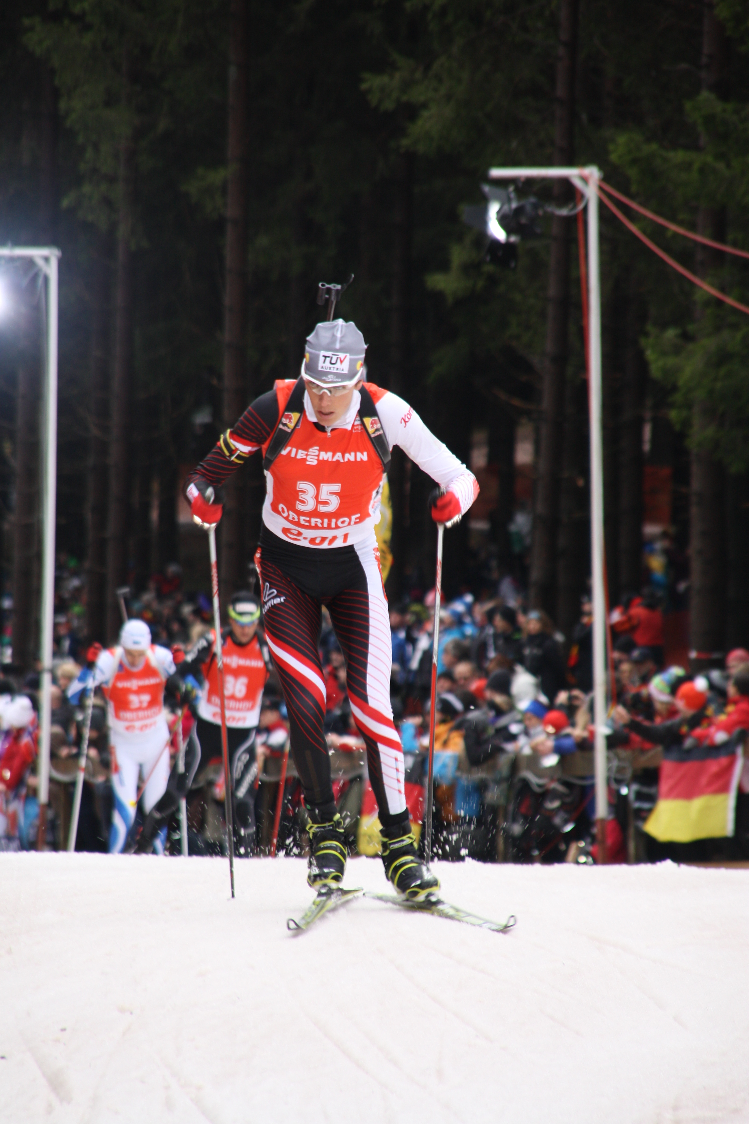 Biathlon World Cup Oberhof 2014 - Mens Pursuit